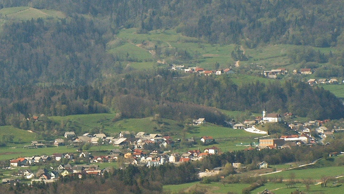 Zg. Stranje viewed from Kamnik